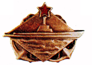 Subnariner's badge